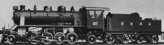 Huainan Railway steam locomotive No. 307 (later China Railways PL8)